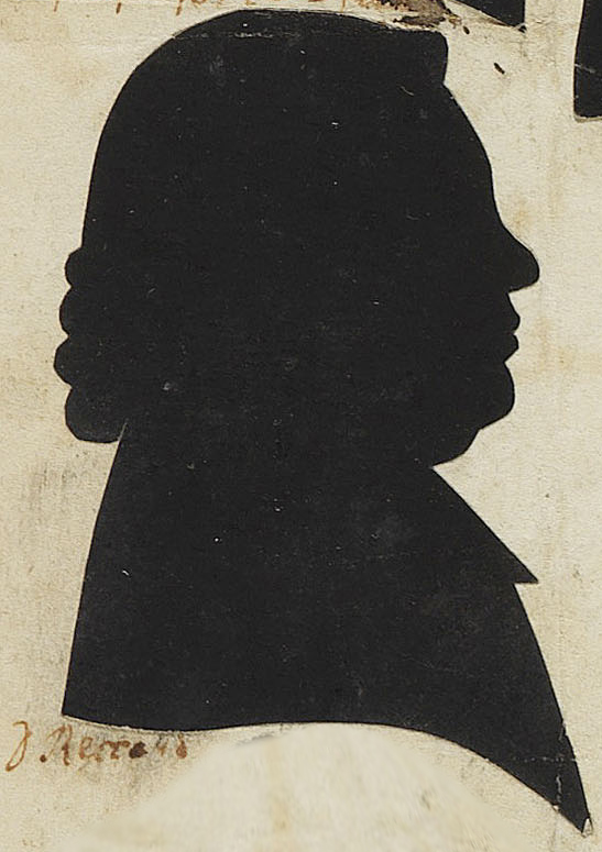 Gotthilf Christian Reccard (1735–1798) was German evangelical theologian and astronomer.